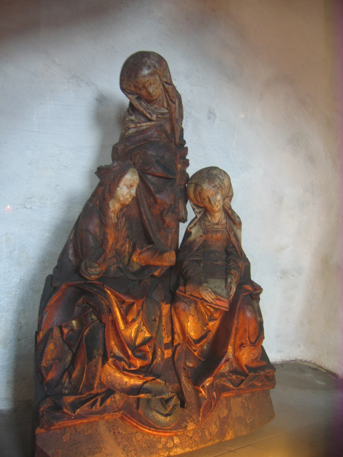 Cathedral in Minden, District of Minden-Lübbecke, North Rhine-Westphalia, Germany.